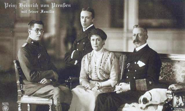 Prince Heinrich of Prussia with family